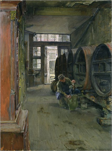 In the vinegar factory, in Hamburg by Gotthardt Johann Kuehl